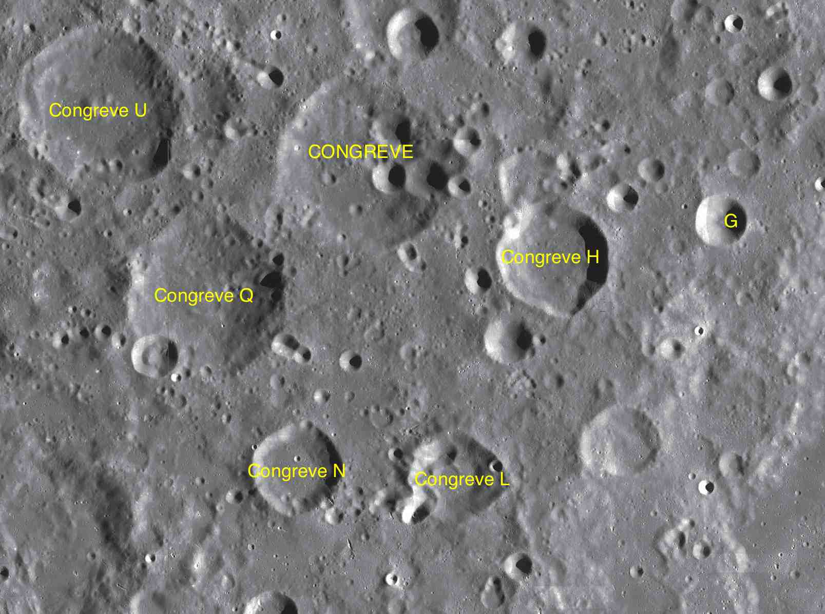 Parts of the charts LAC-68, LAC-69, LAC-86, LAC-87 used for the presentation